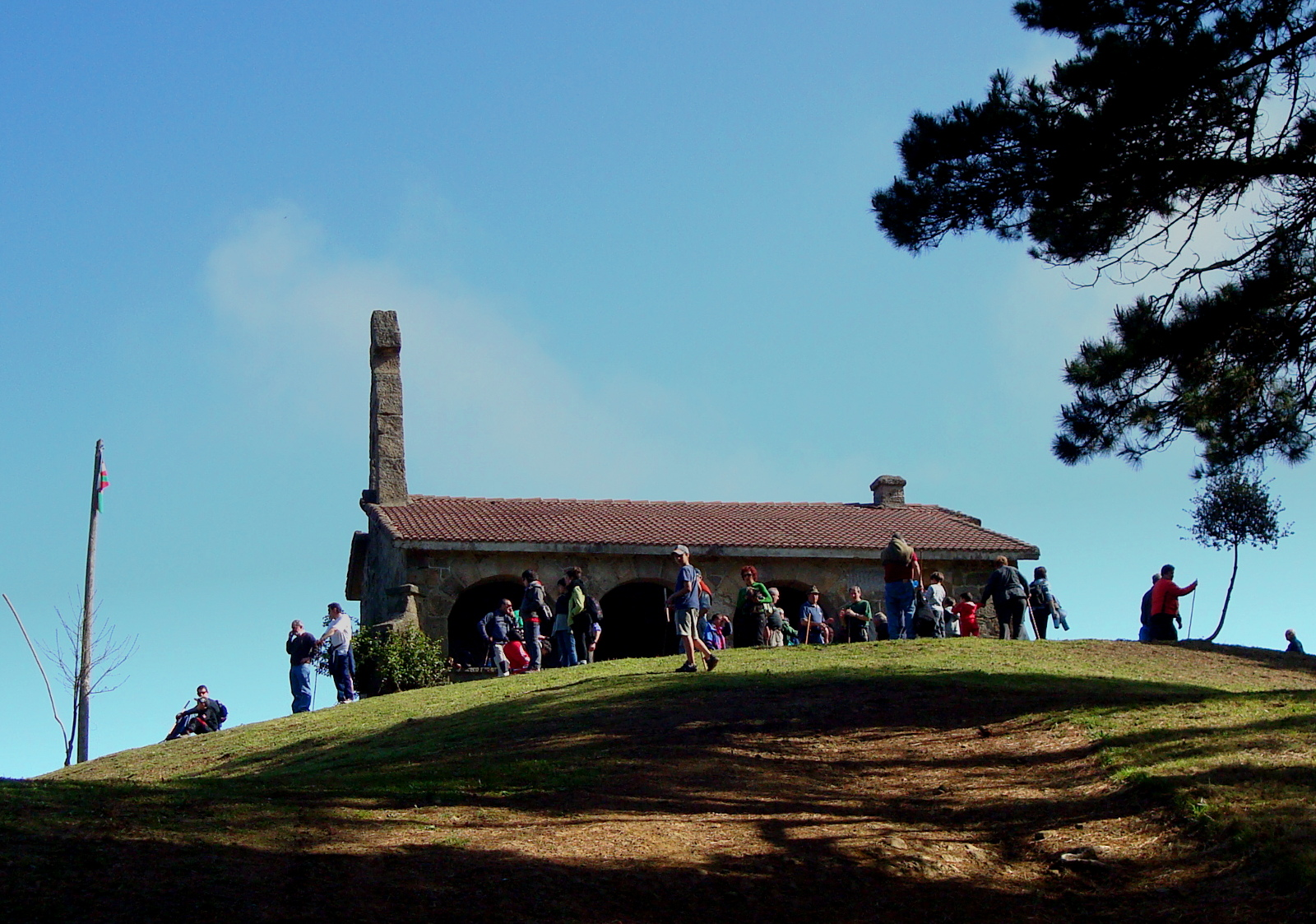 Bizkargi mountain (Biscay, Basque Country, Spain)